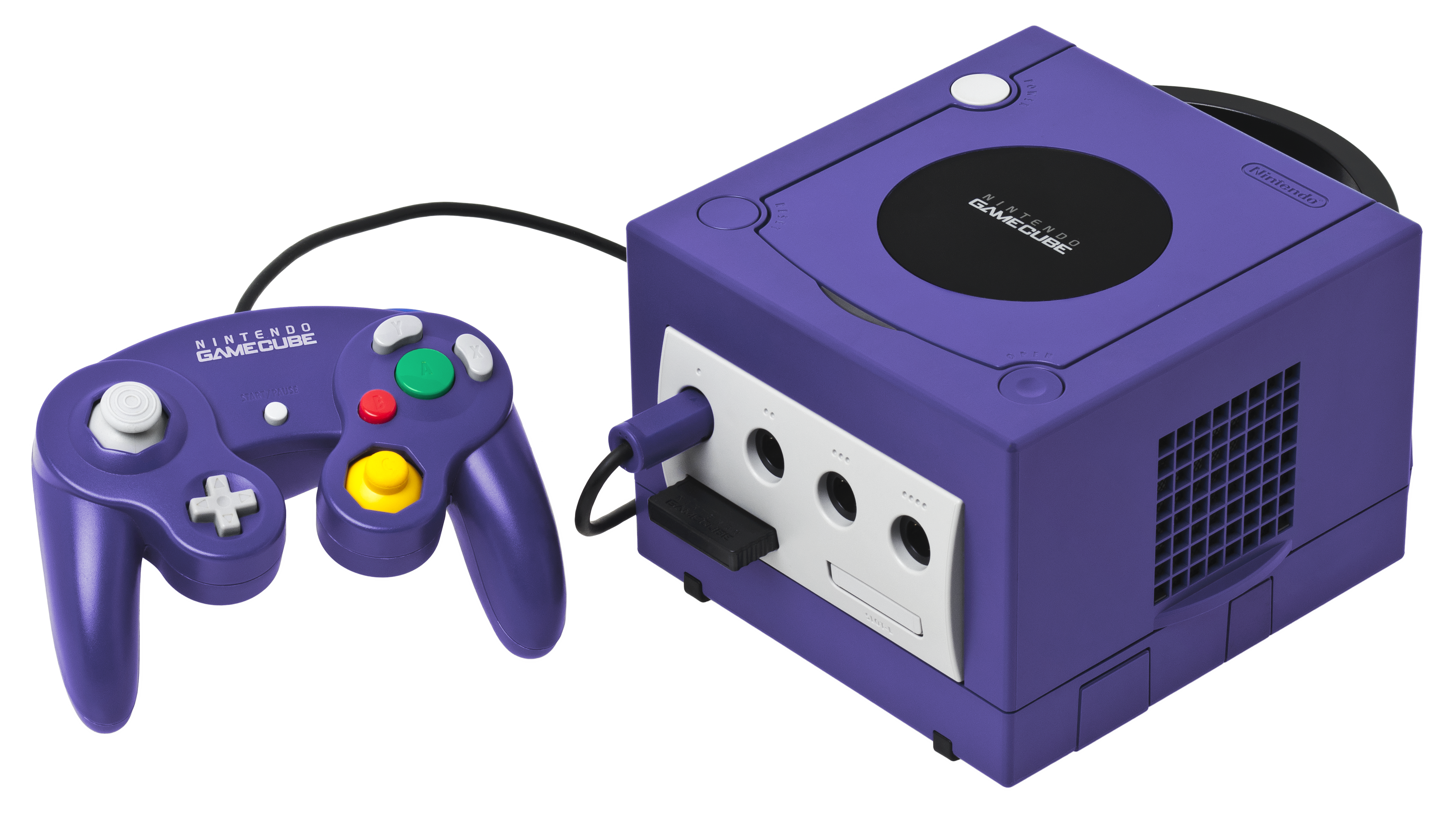 A Nintendo GameCube console shown with memory card and a standard controller. This is the PNG version.